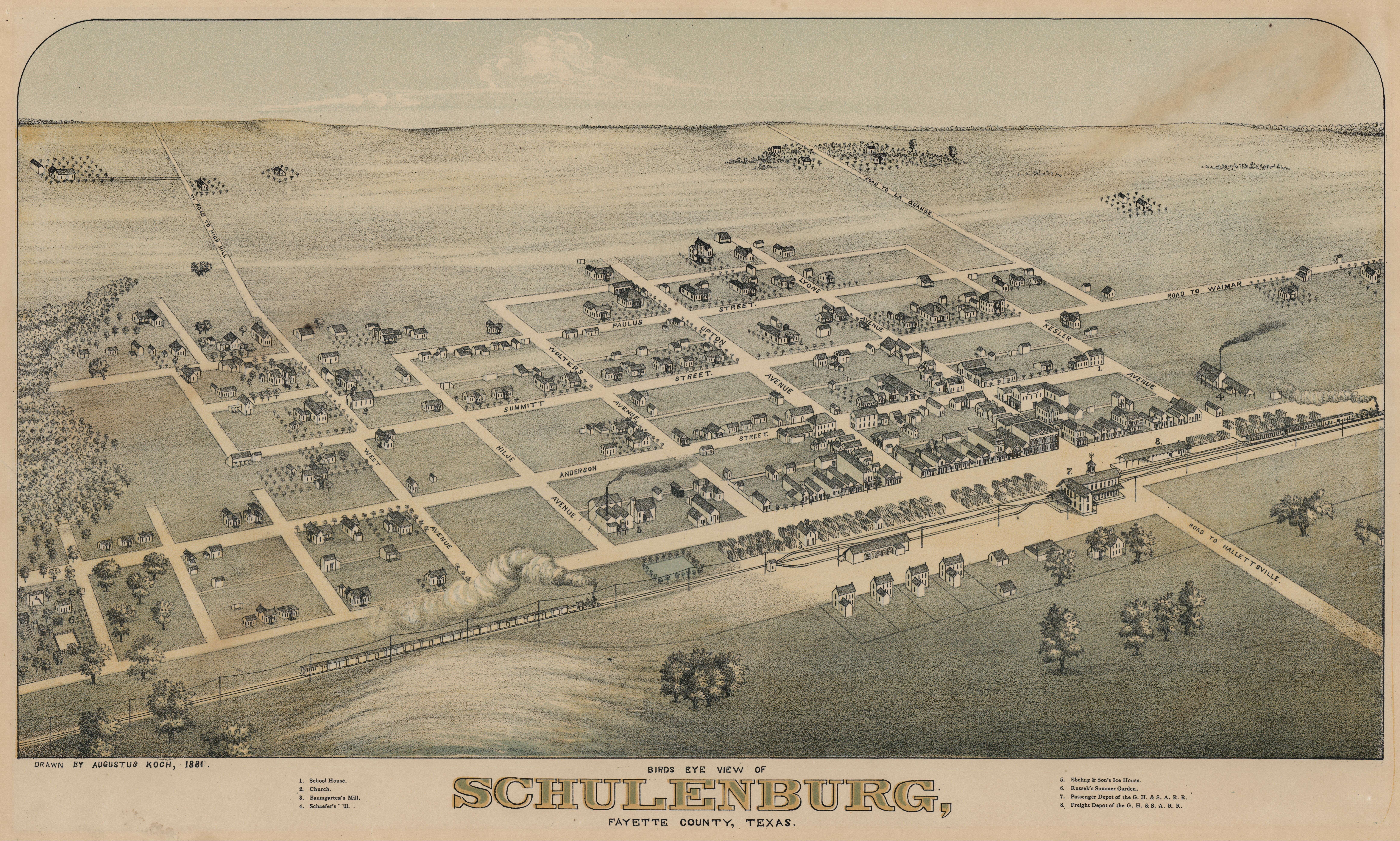 Schulenburg, Texas in 1881. Bird's Eye View of Schulenburg, Fayette County, Texas, 1881. Toned lithograph, 12.3 x 22.8 in. Lithographer unknown. Witte Museum, San Antonio.